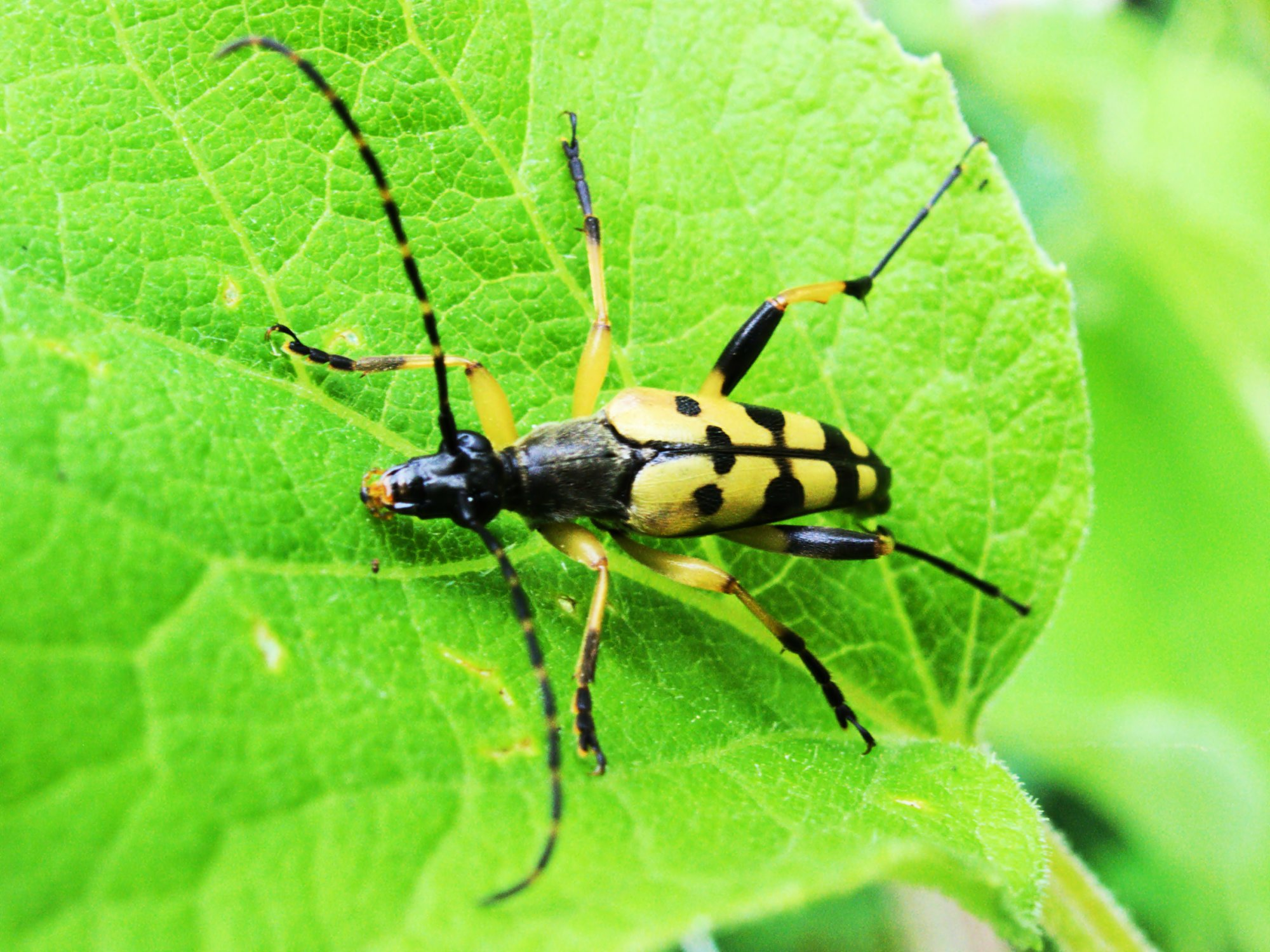 Name: Rutpela maculata. Family: Cerambycidae. Location: Münster, NRW, Germany